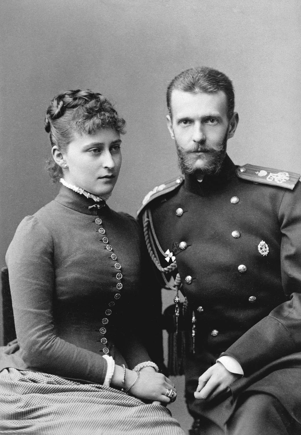 Princess Elizabeth of Hesse and Grand Duke Serge Alexandrovitch of Russia